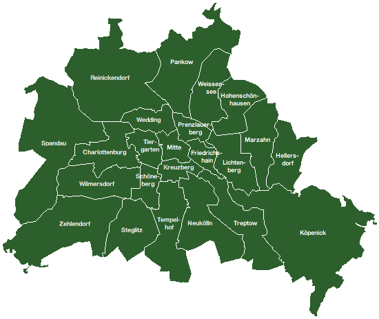 The names of the boroughs of Berlin between 1990 and 2000